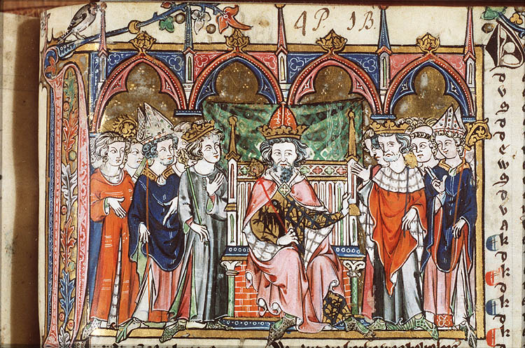 Charlemagne at court. From Jacob van Maerlant's "Spieghel Historiael" Original at the Koninklijke Bibliotheek (Royal Library), the Netherlands. Signature KB, KA 20, p. 208